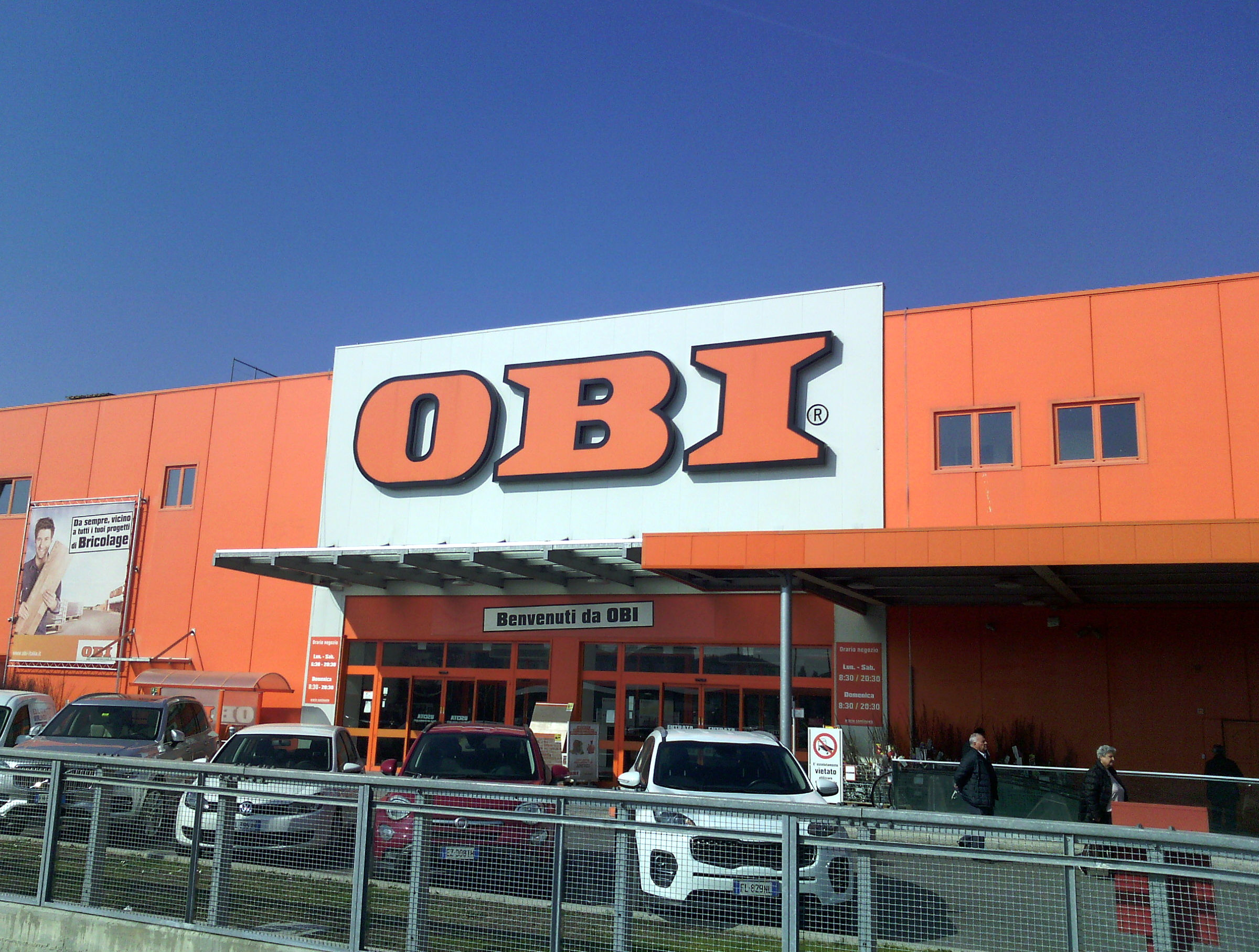 An OBI Group Holding SE & Co. KGaA Store in Corciano (Umbria, Italy), February 21, 2019.